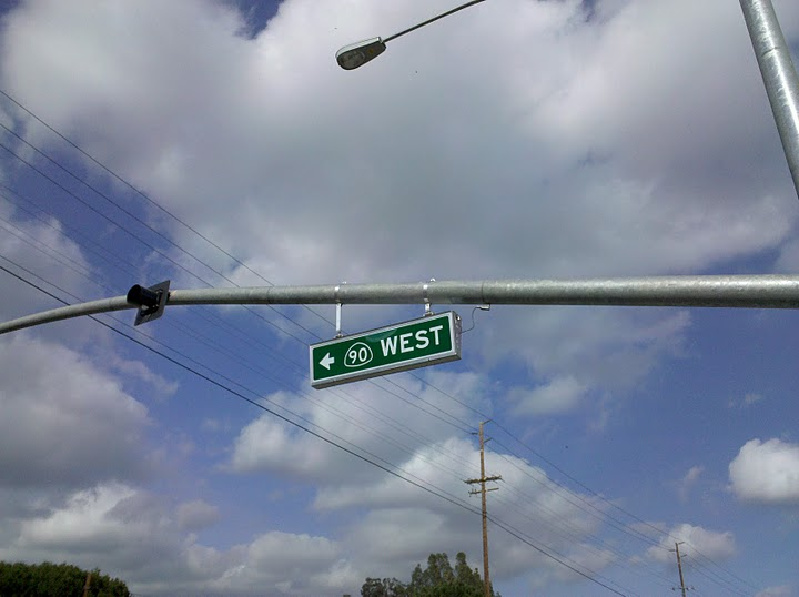 Although Imperial Highway (SR-90) clearly goes north at this intersection, it is signed as west in order to be consistent with the rest of the route. This sign directs traffic to the on-ramp from Esperanza Rd. / Orangethorpe Ave. near the intersection of Anaheim, Yorba Linda, and unincorporated Orange County, California.